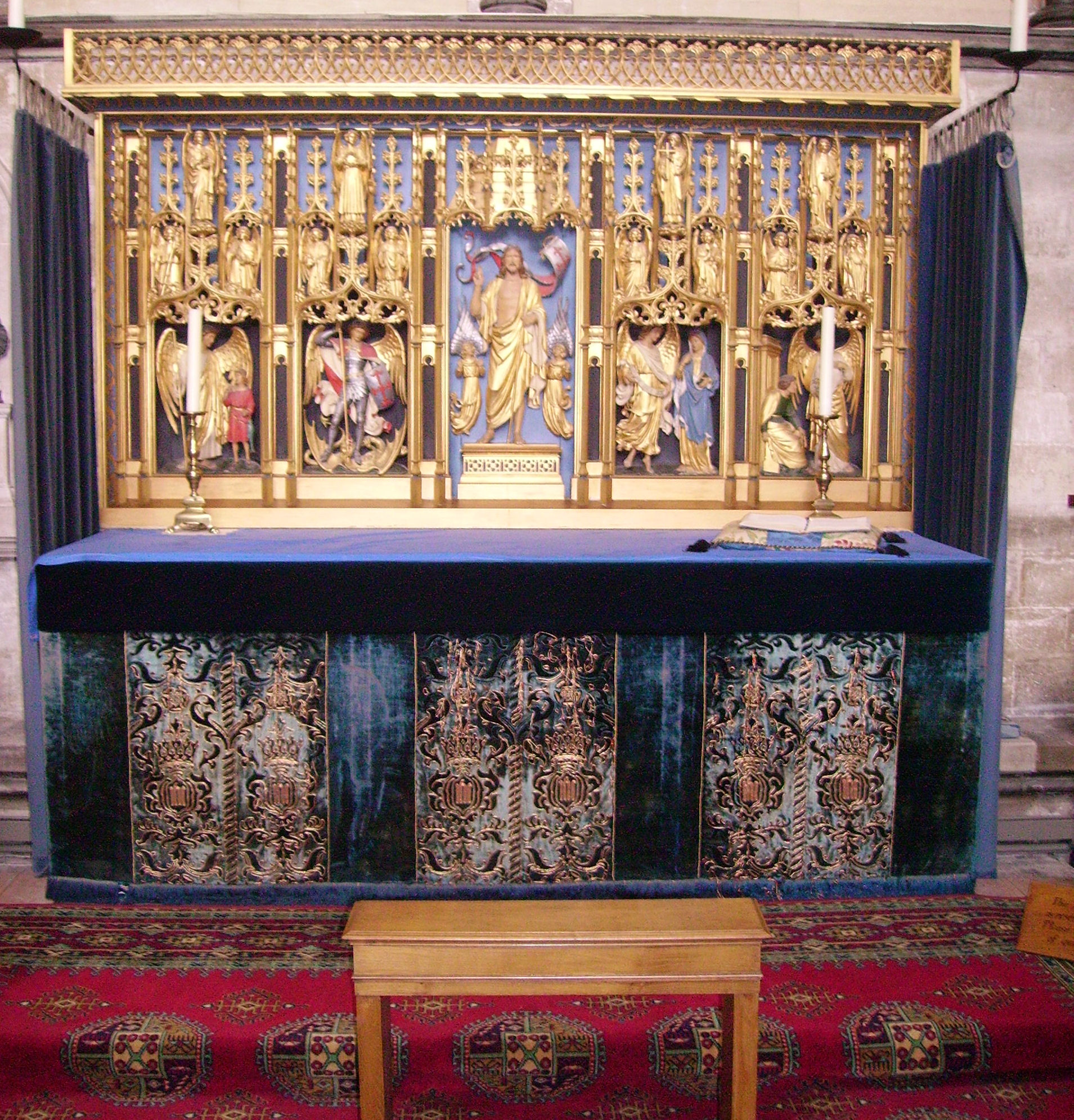 Altar of St Michael’s Chapel at Salisbury Cathedral, United Kingdom.